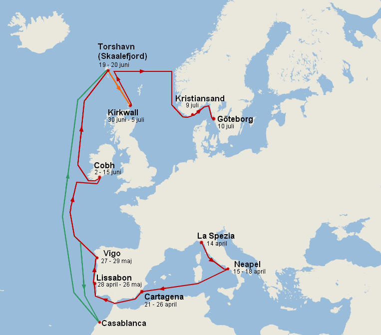 Delivery of the destroyers Psilander, Puke, Romulus and Remus from Italy to Sweden 1940.